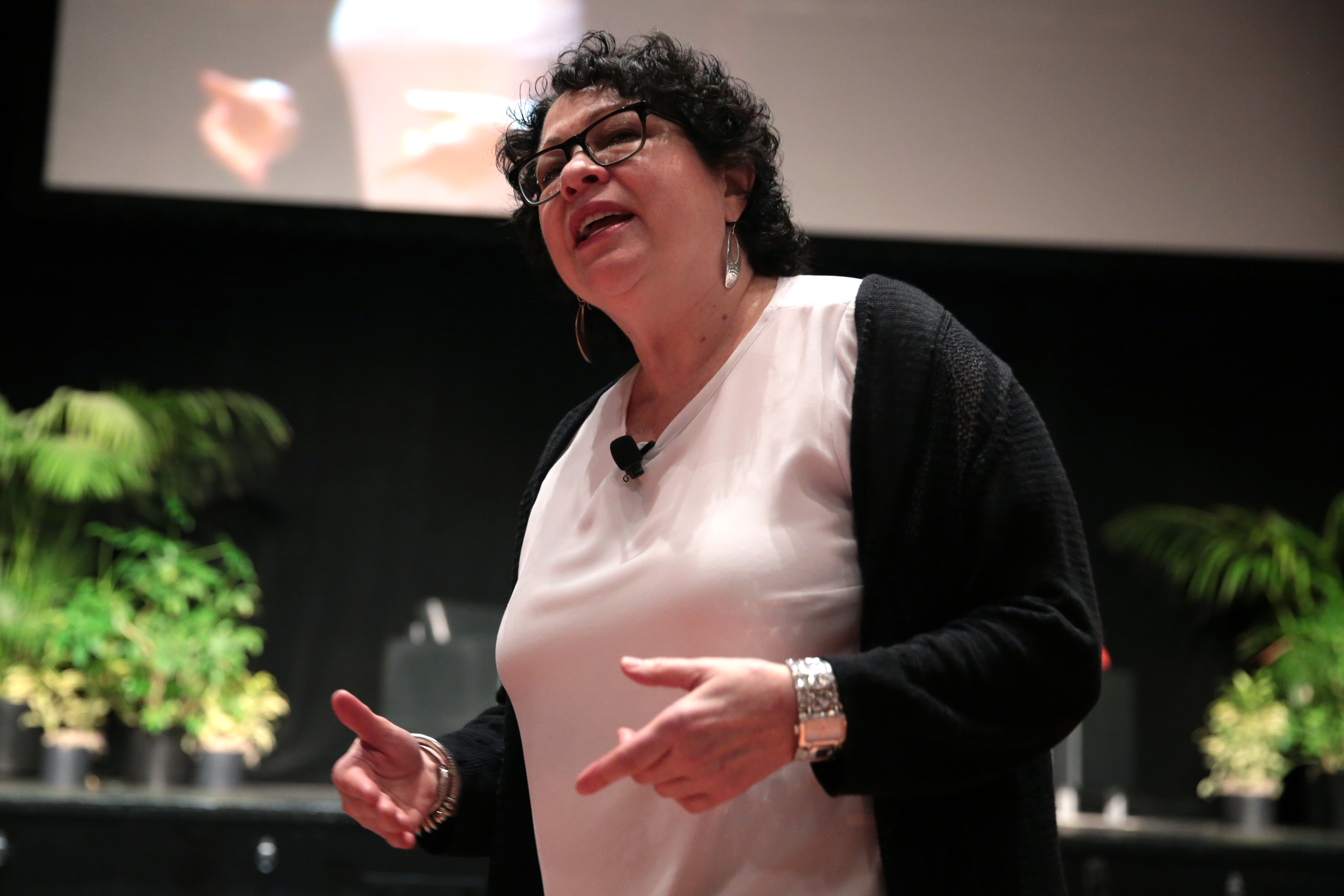 United States Supreme Court Justice Sonia Sotomayor speaking to attendees at the John P. Frank Memorial Lecture at Gammage Auditorium at Arizona State University in Tempe, Arizona.